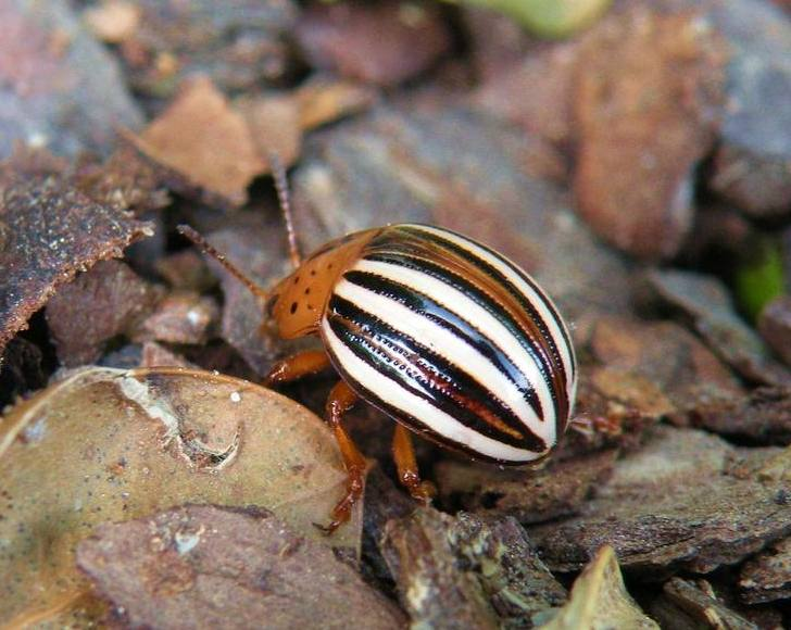 false potato beetle, Leptinotarsa juncta (Germar, 1824), adult crawling on mulch, United States faux doryphore marchant sur le sol (Leptinotarsa juncta, Chrysomelidae)